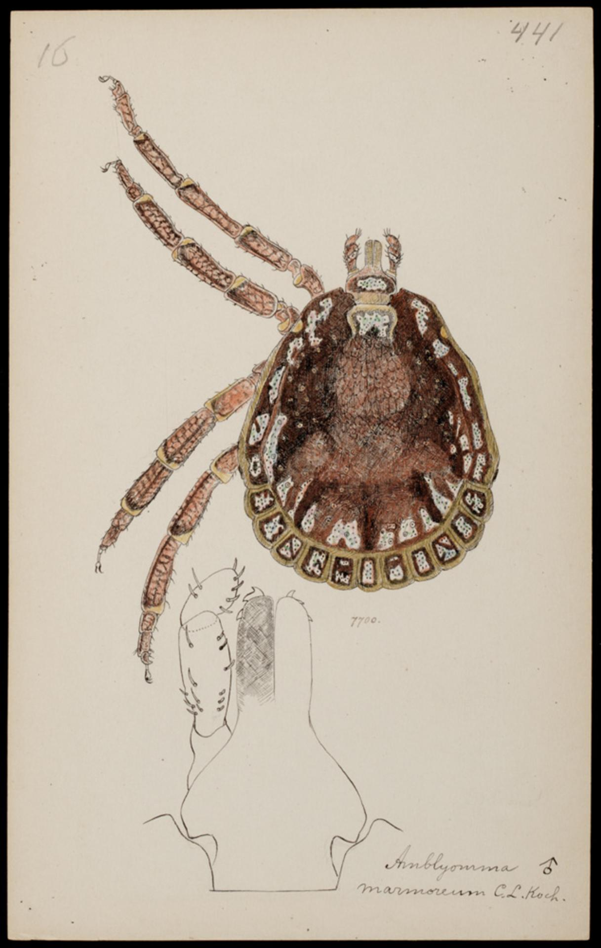 Amblyomma marmoreum (C. L. Koch)